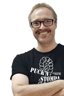 Peter Sesselmann